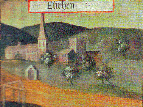 Euren in 1589